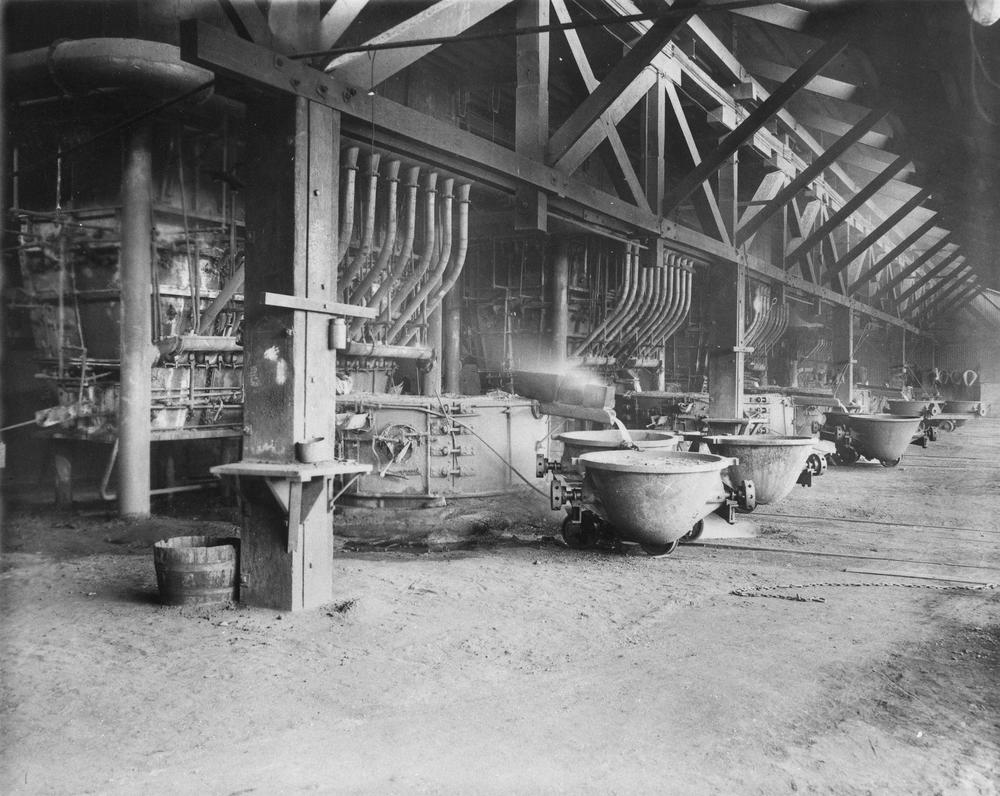 Blast Furnaces at Copper Reduction Works, Mt. Morgan, Australia, 1908. Copper blast furnaces at work at Copper reduction Works 6 March 1908 (Description supplied with photograph). Three rectangular, water-jacketed blast furnaces were built, the first being blown in on January 20, 1906, the second three months later and the third two years later. A fourth blast furnace was eventually erected, with the fifth being built in 1911.